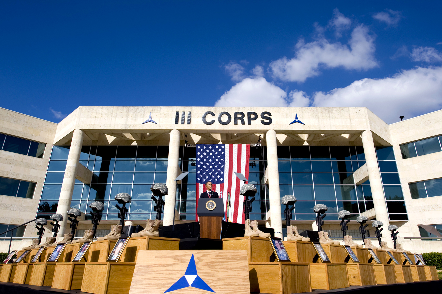 Fort Hood shooting: US President Barack Obama speaks at the Nov. 10, 2009, Fort Hood, Texas, memorial service honoring the victims of the Nov. 5 shooting rampage that left 13 dead and 38 wounded. Obama said "the killer will be met with justice – in this world, and the next."